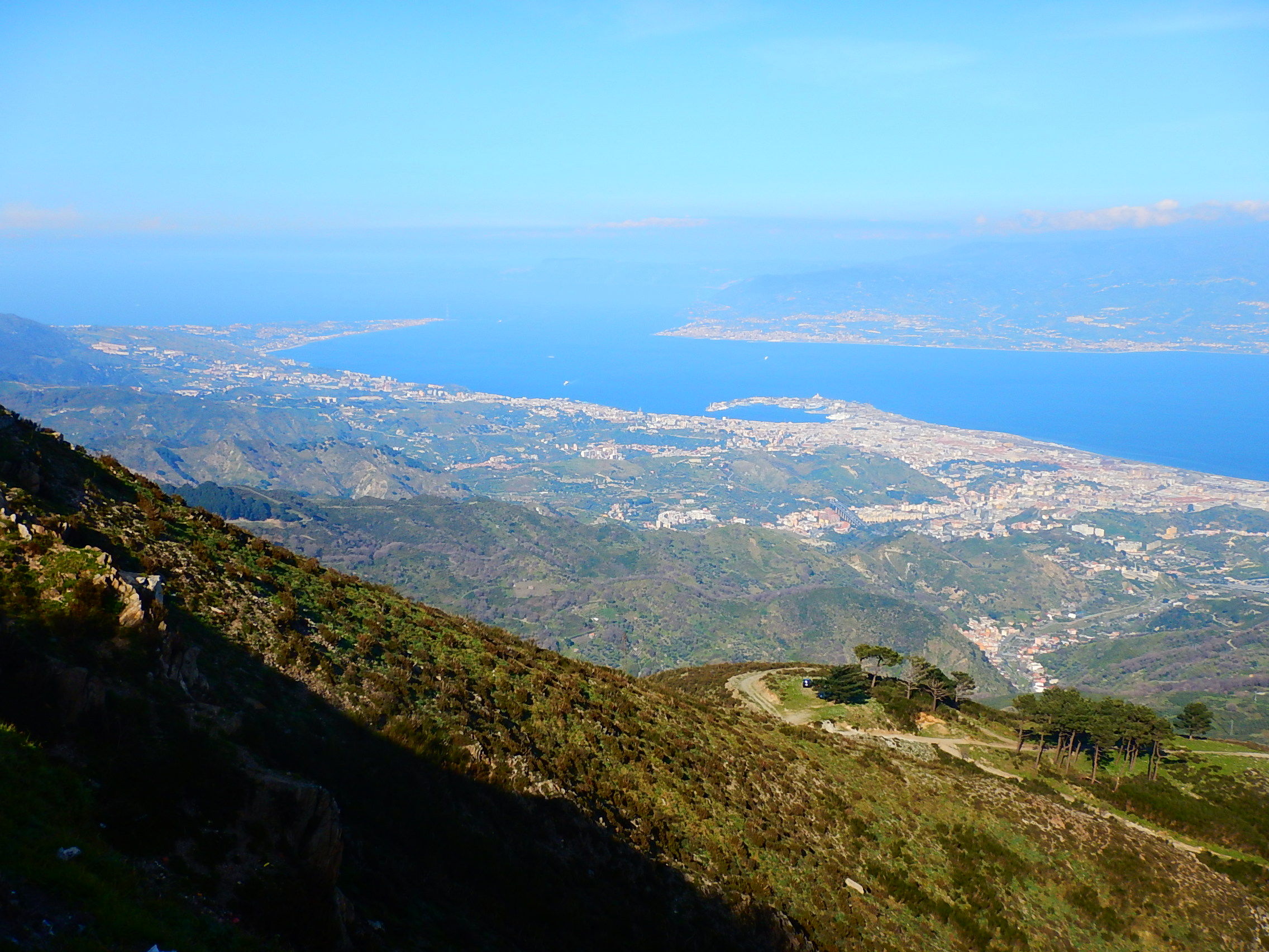 the Strait of Messina, Sicily